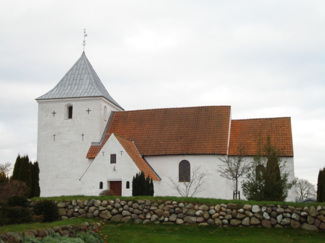 Gangsted Church, Denmark, photo taken by Sommer.